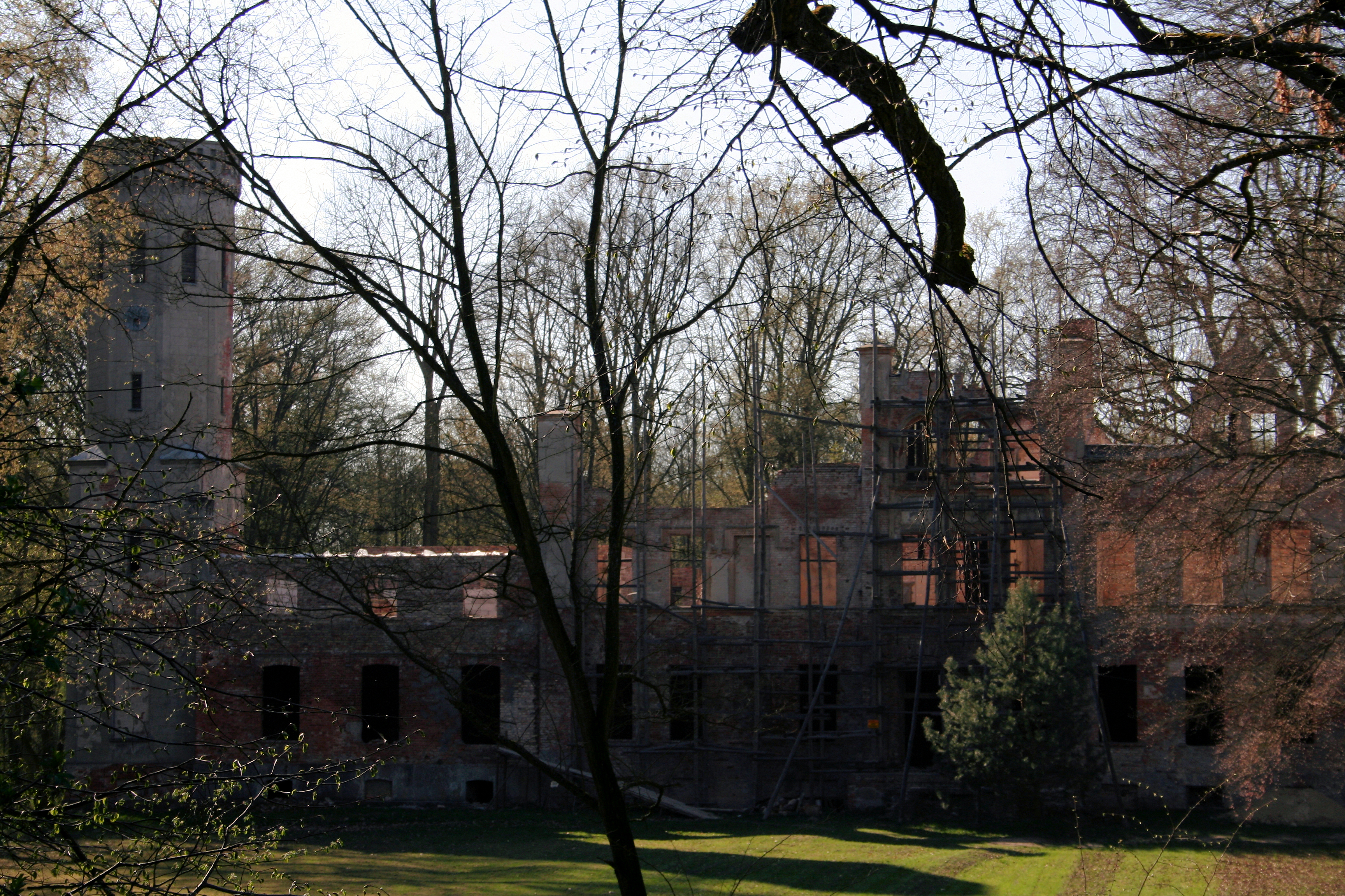 Ruins of palace in Dolsk (West Pomerania, administrative district Dębno)